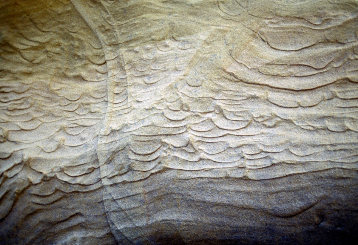 Dish structures from northern Peru, near the town of Talara. Courtesy of Zoltan Sylvester, who granted permission by e-mail.